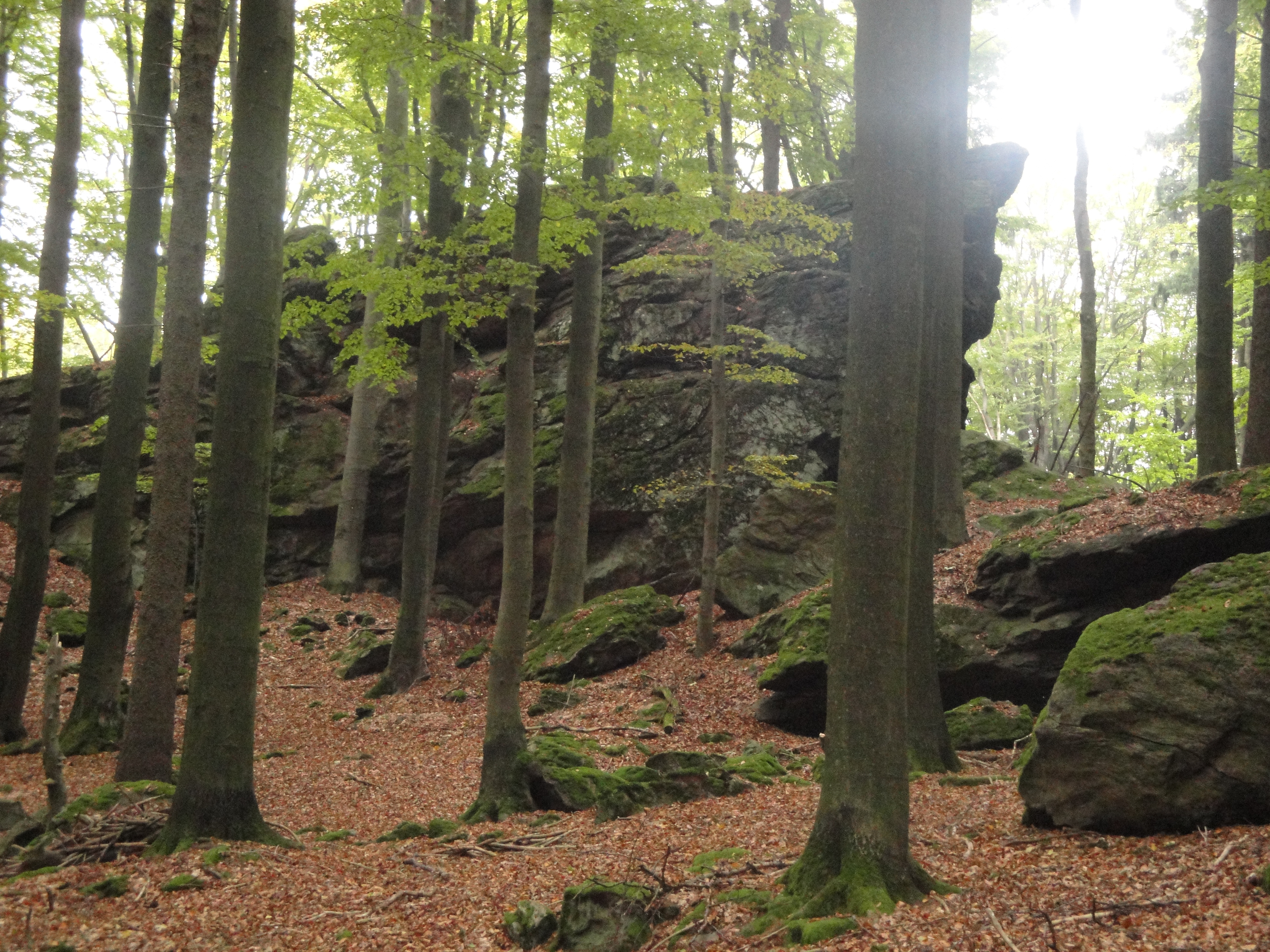 Nature reserve Baba - V bukách in Žďár nad Sázavou District, Czech Republic